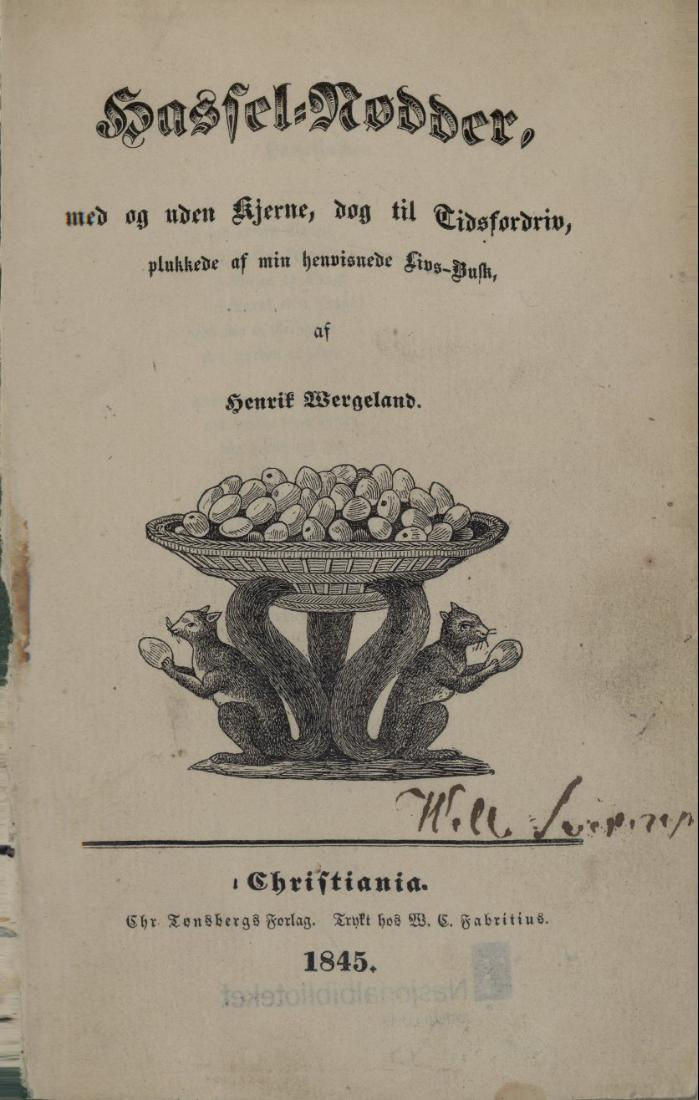 Cover of Henrik Wergeland's book Hassel-Nødder from 1845